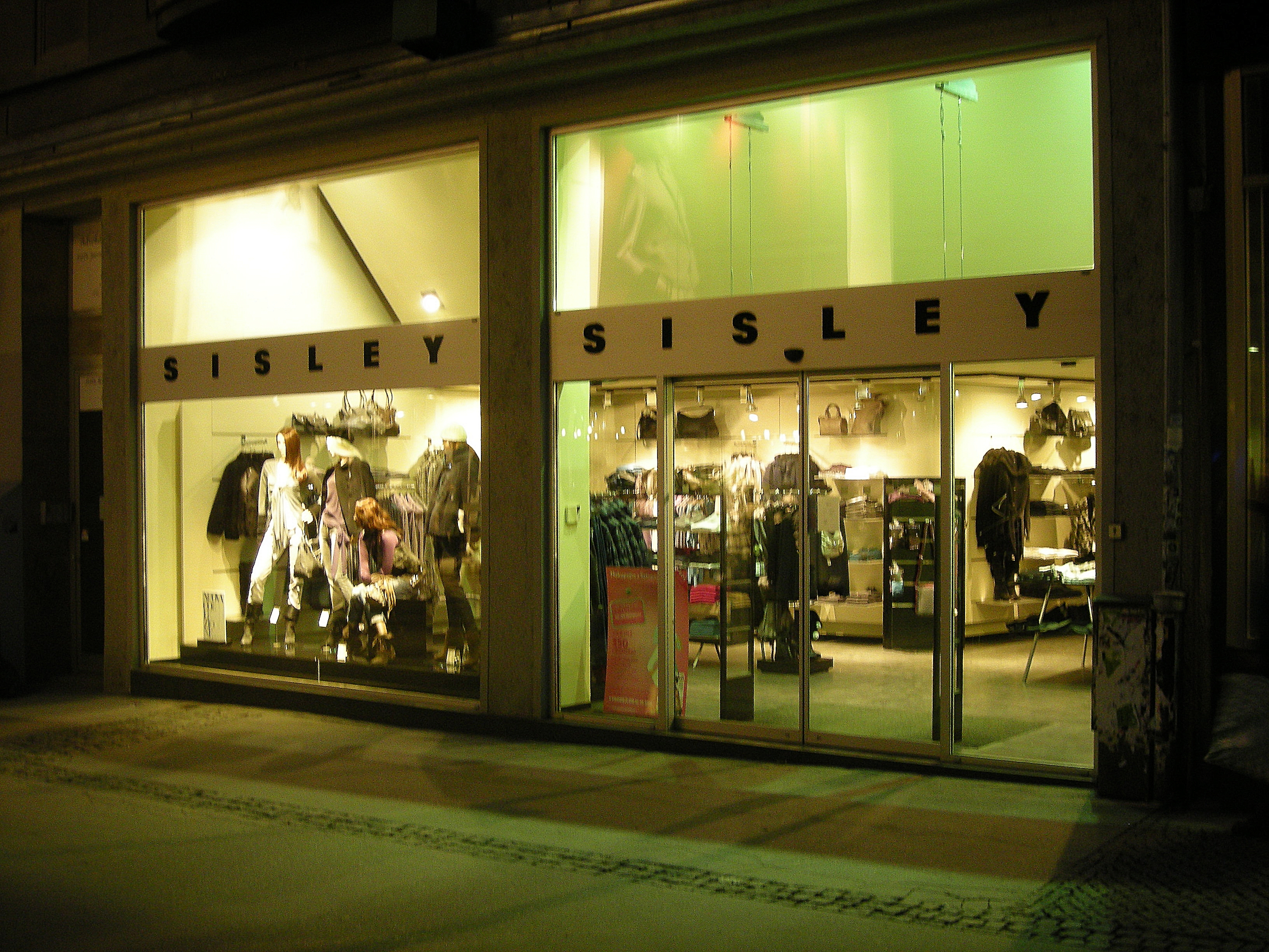 Sisley store in Ceska ulice street, Brno, czech rep.